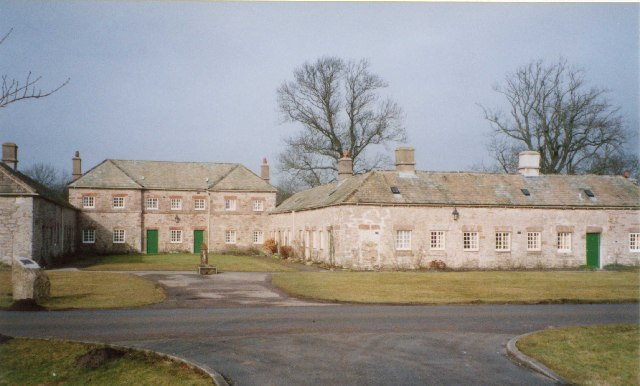 Model Village, Lowther. These estate houses were built in 1773 after drawings for a 'model' village by Robert Adam. They were (in 2002) being modernised for a housing association, reducing in the number of dwellings.